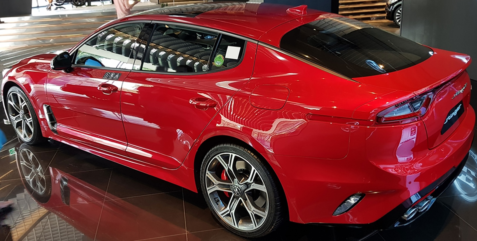 Kia Stinger